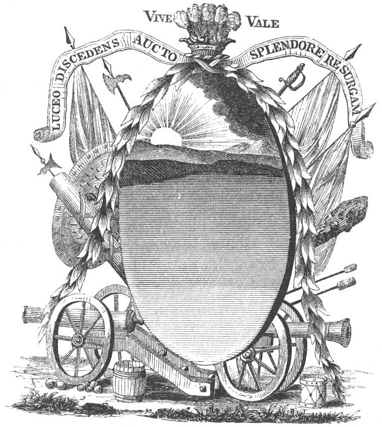 Mischianza ticket designed by Capt John Andrè